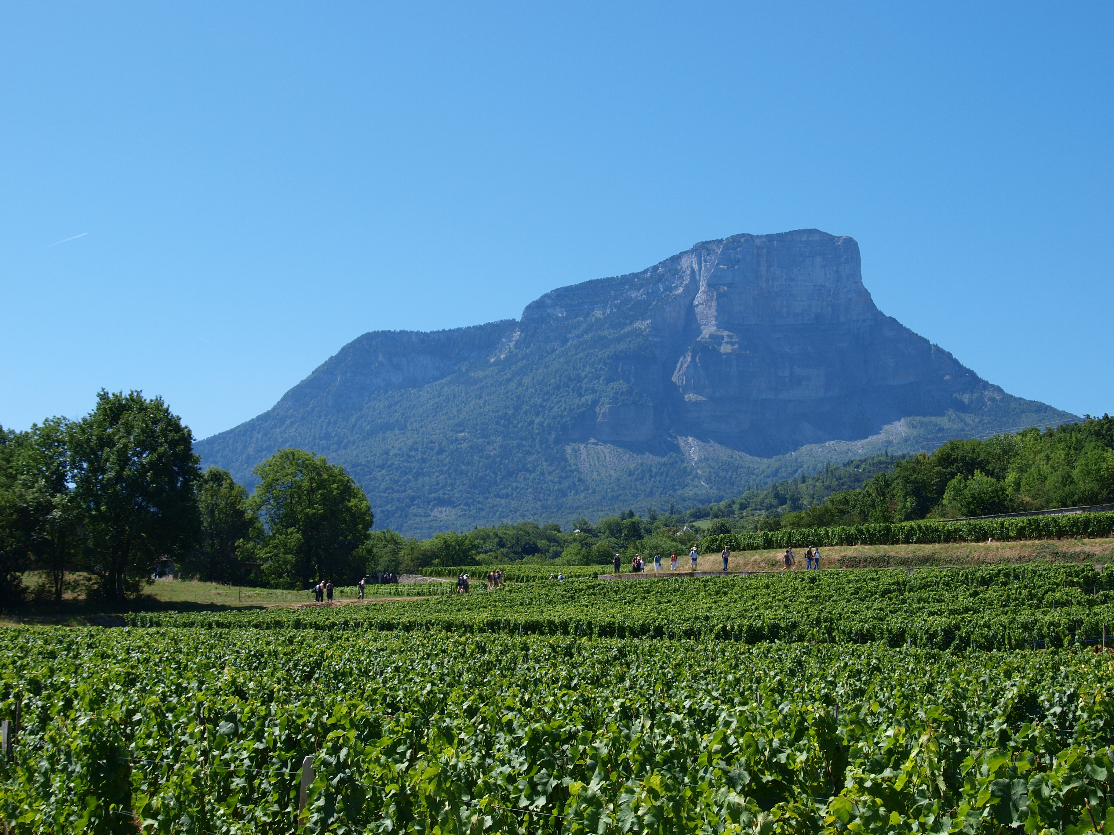 Mount Granier and vineyards in Apremont village in Savoie